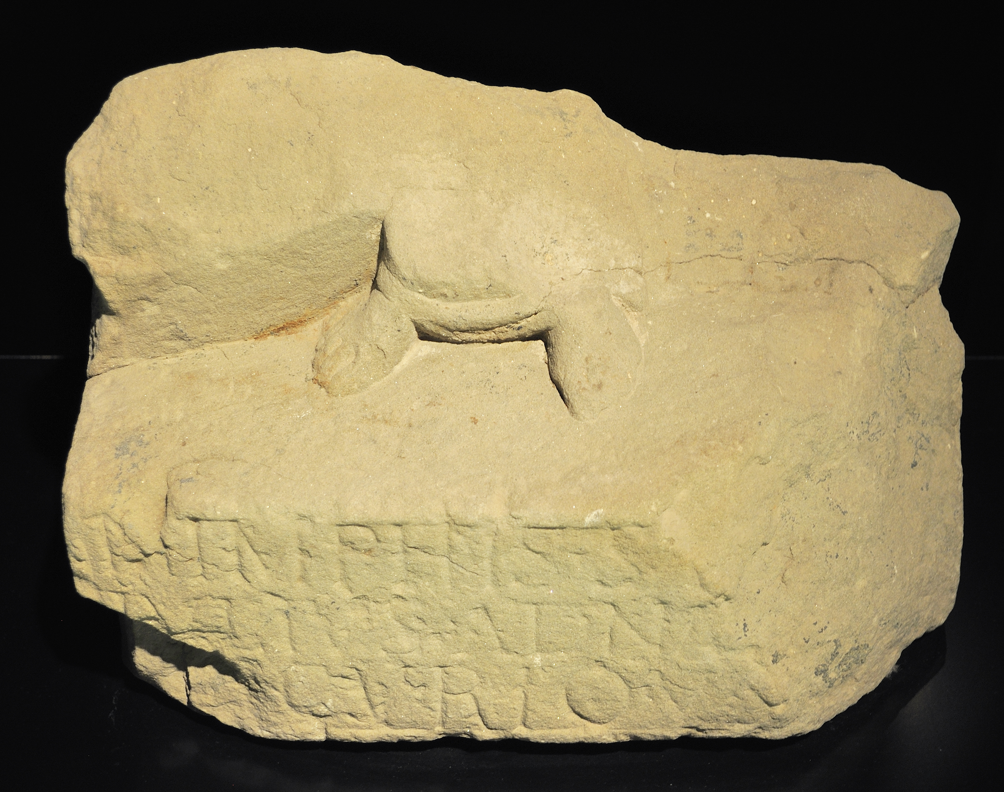 Picture taken in the Roman history museum in Osterburken.